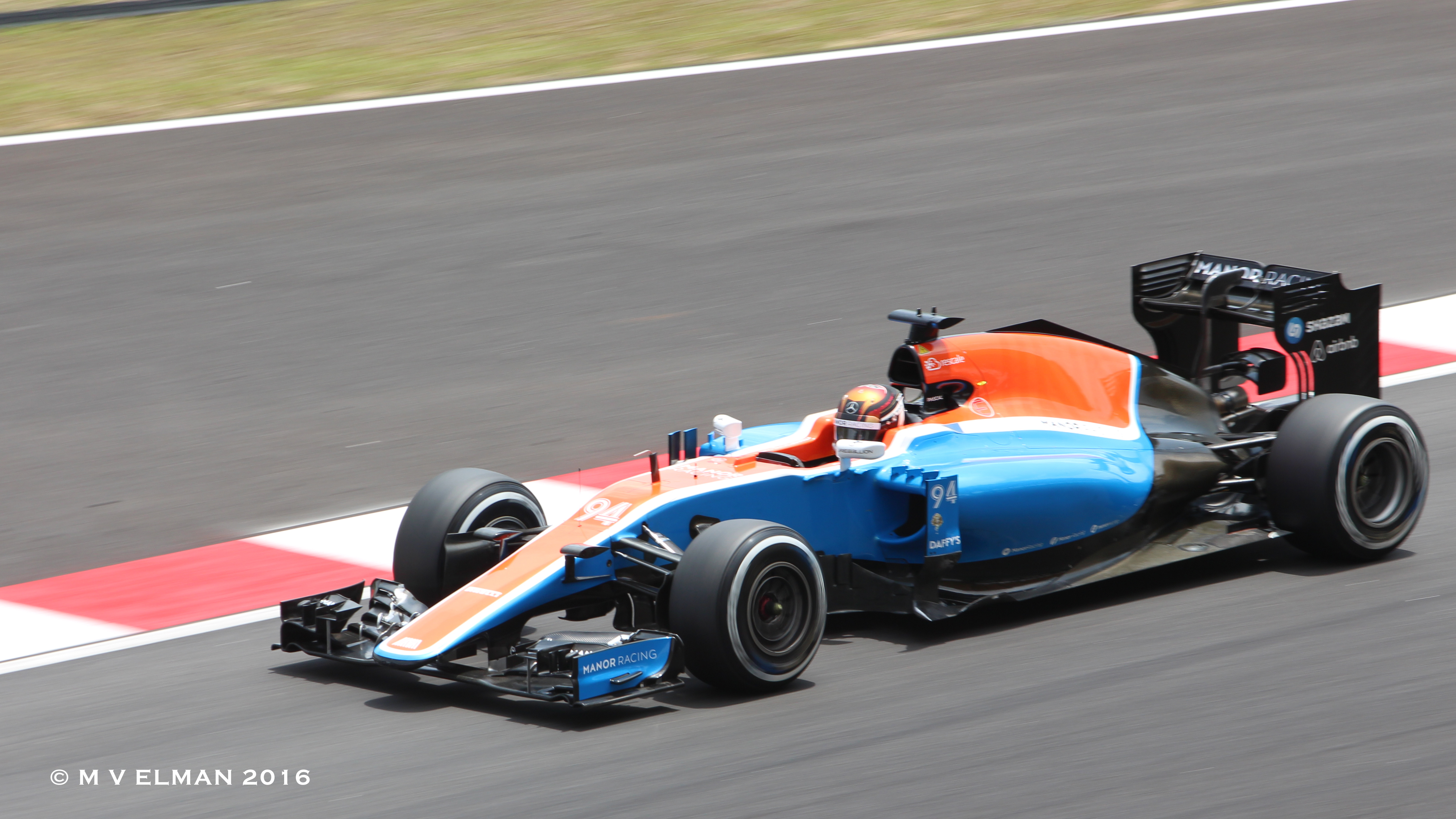 Pascal Wehrlein - Manor Racing Team MRT05